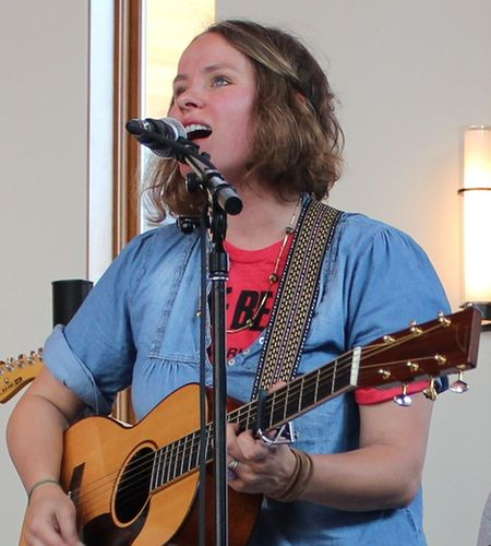 Sarah Brendel performs at Lille Gård festival, Kelowna, British Columbia, Canada on 2012-06-30